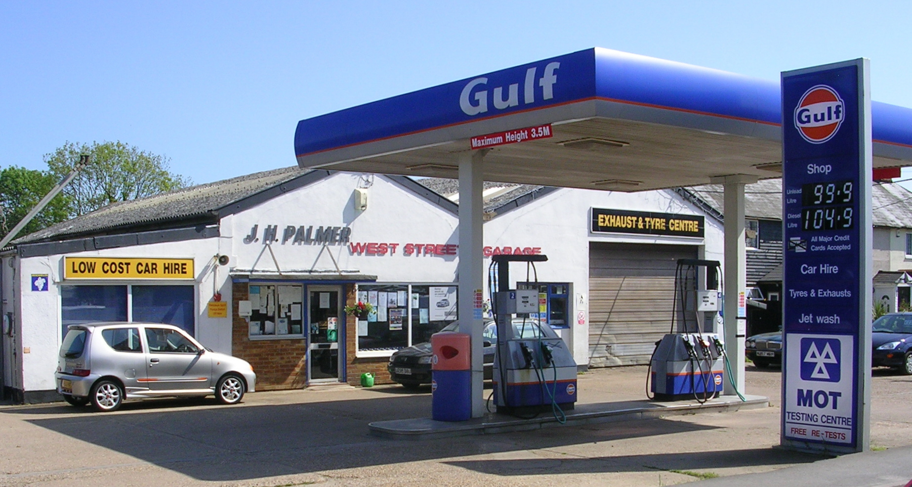 Palmer's Garage in Tollesbury, Essex, England